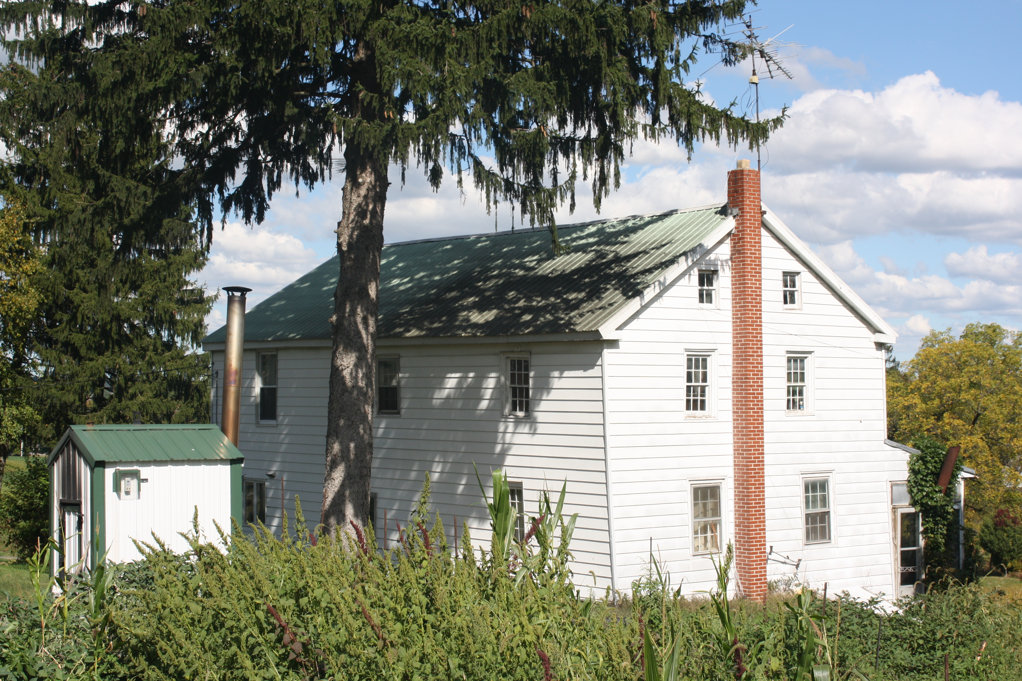 Grand View Dairy Farm is a historic farm complex and national historic district located in South Heidelberg Township, Berks County, Pennsylvania. Farmhouse (c. 1790, c. 1890) and Ground cellar.